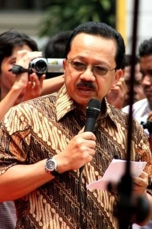 Fauzi Bowo